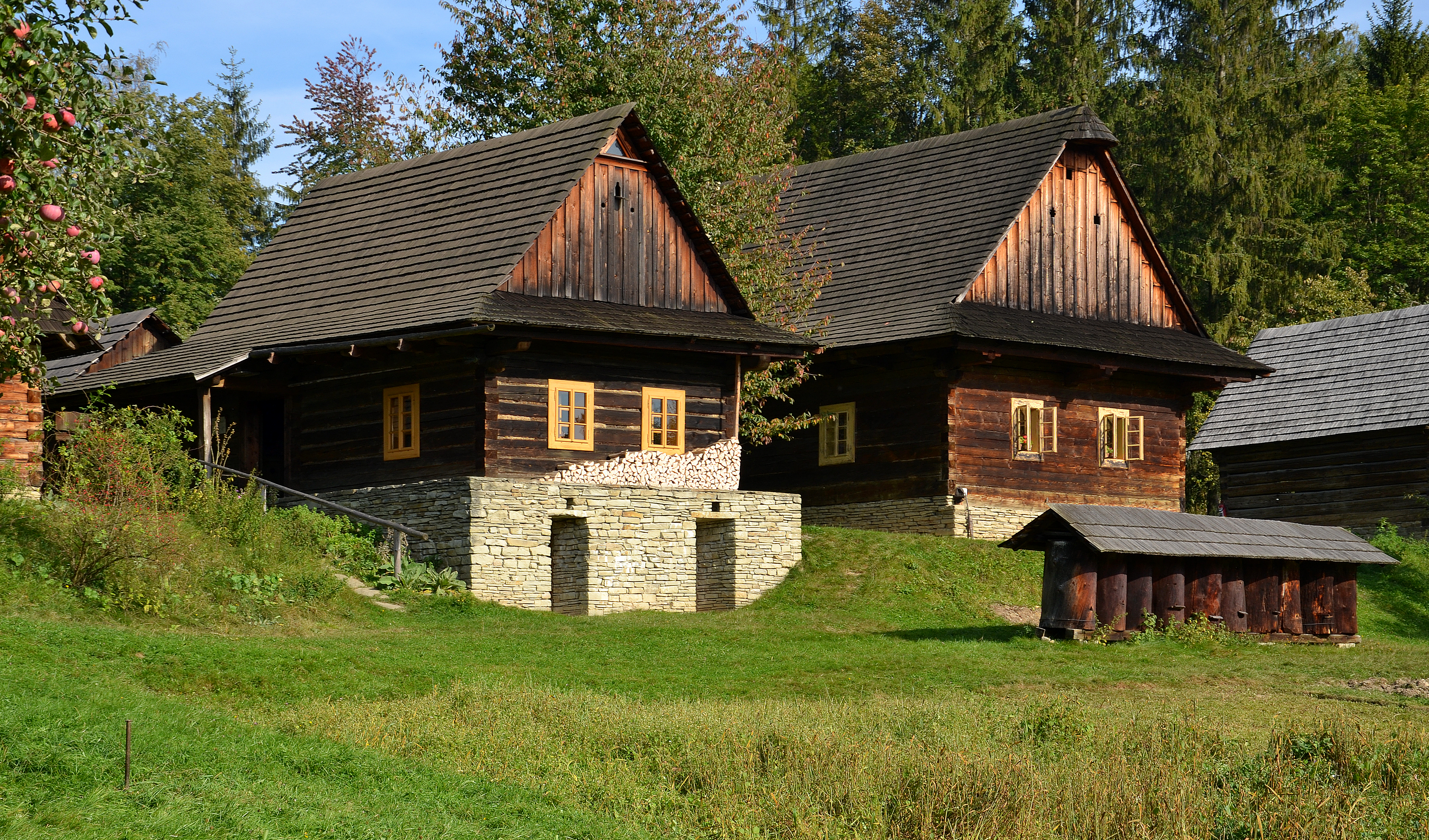 Wallachian Open Air Museum, Czech Republic - Wallachian village